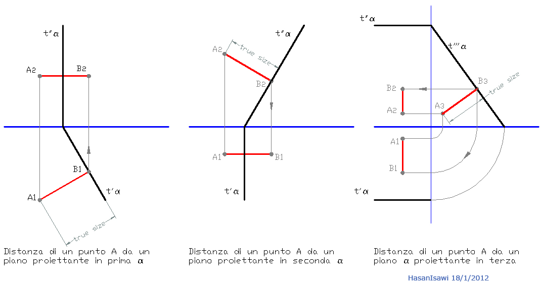 true length between point and plan ________ distance of a point from a plane in Monge method is determined directly in those case where the plan is ortogonal ad one of the three orthogonal projection planes